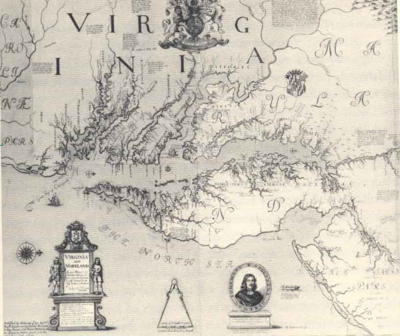 Map Virginia (Augustin Herman)